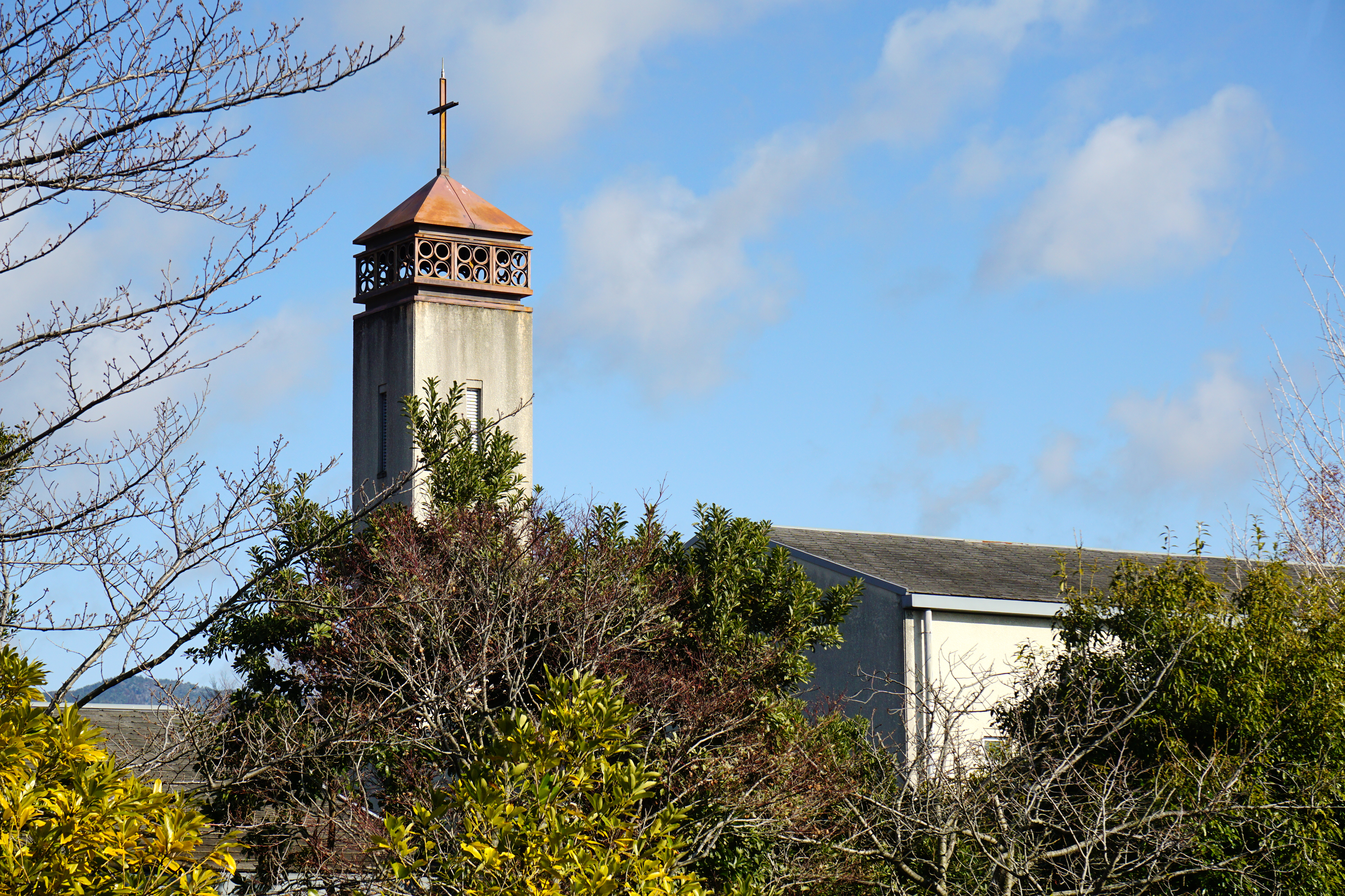 Heian Jogakuin University Takatsuki Campus in Nanpeidai, Takatsuki, Osaka prefecture, Japan.